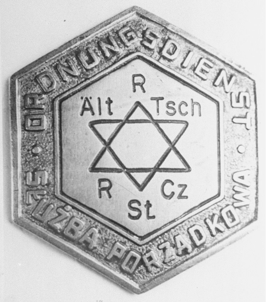 see title